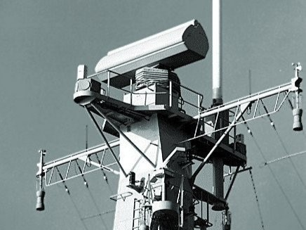 cropped photo